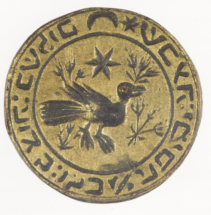 Segell de marcar pans de Pasqua